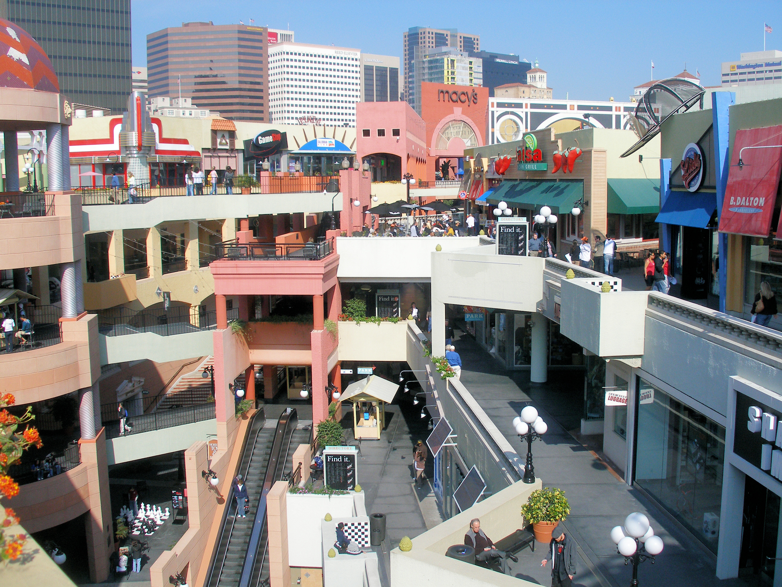 Westfield Horton Plaza in downtown San Diego. Photographed by user Coolcaesar on February 18, 2008.